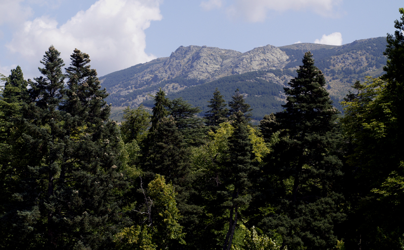 Valsaín Valley in Segovia (Spain); mixed forest with Abies alba (dark green trees).